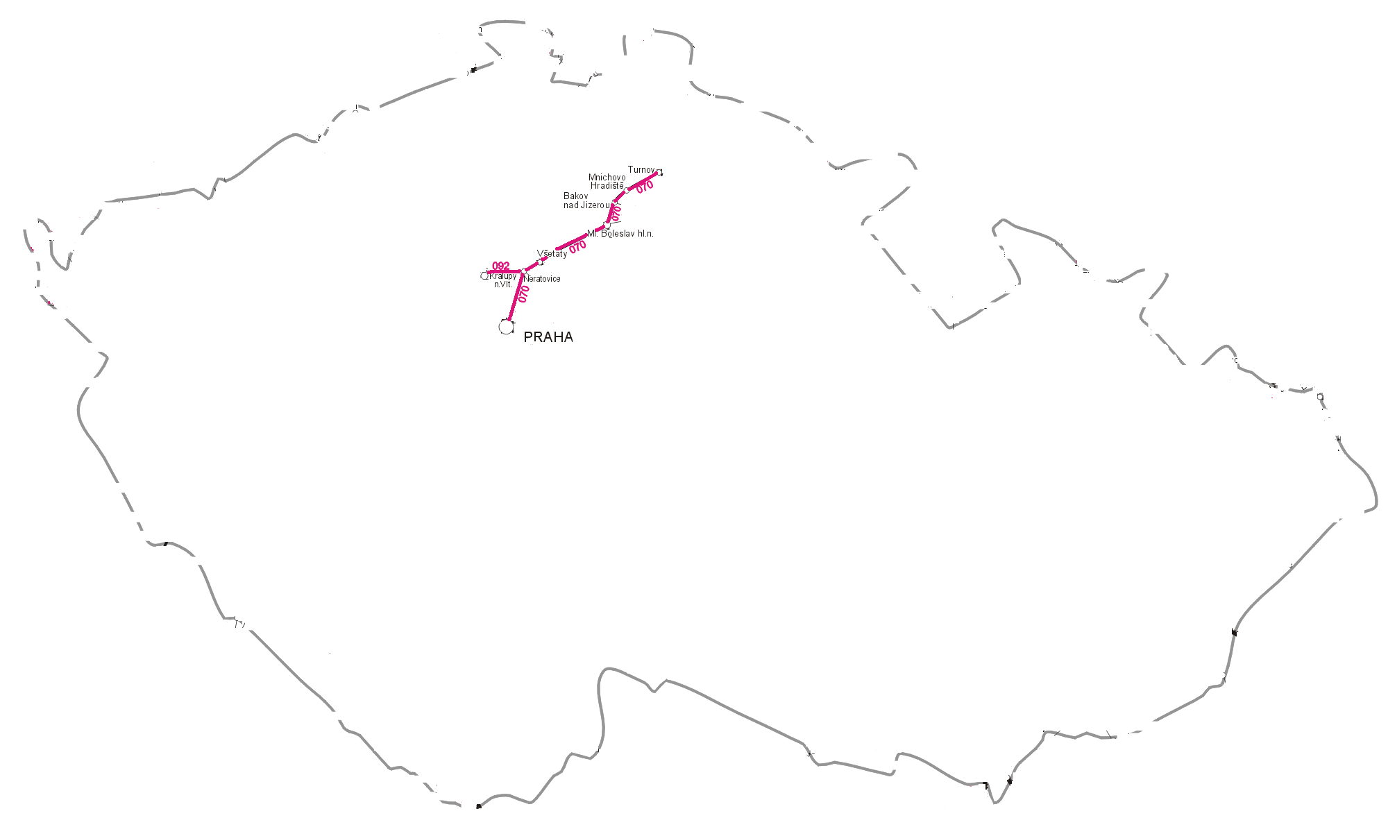 network of railway company TKPE